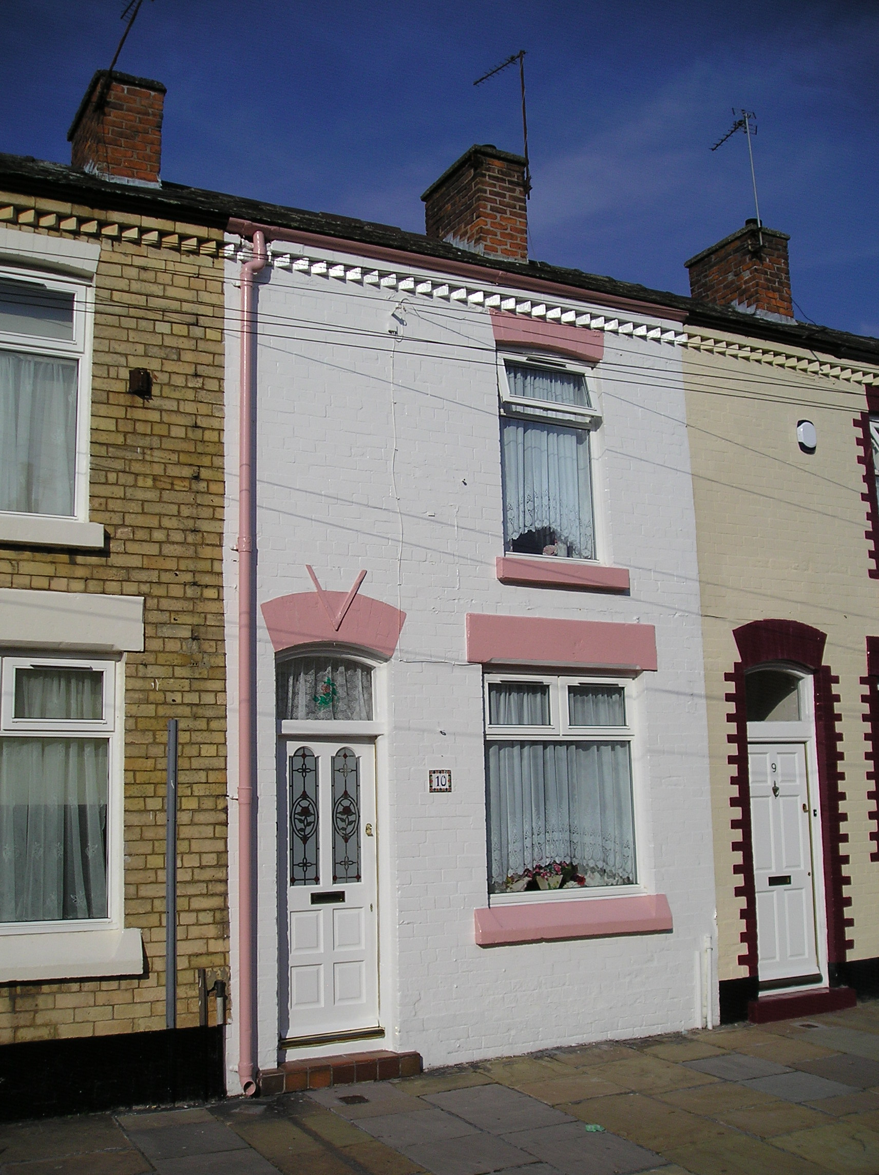 Ringo Starr's Home Admiral Grove 10, Liverpool